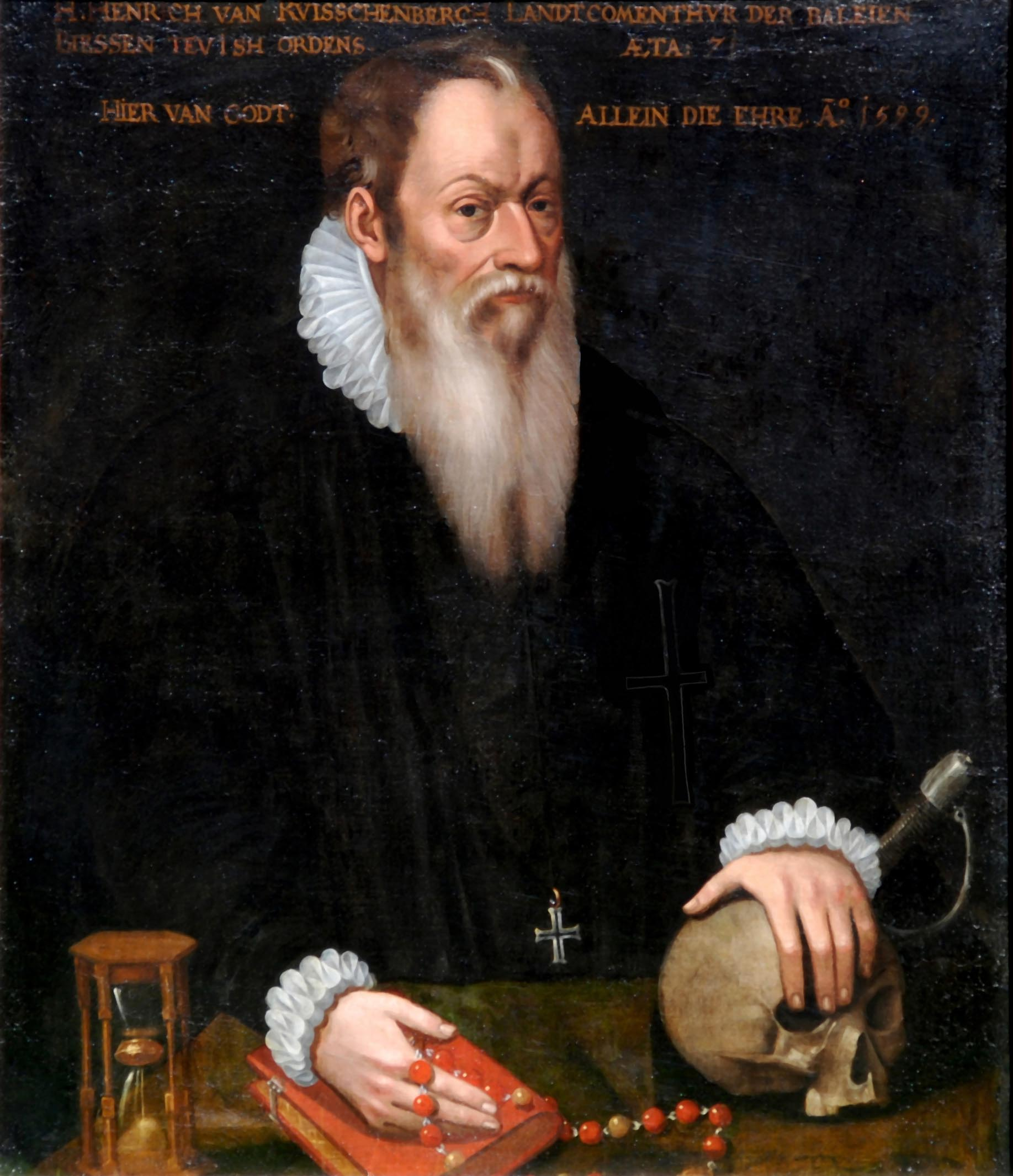 Portrait of Heinrich of Reuschenberg